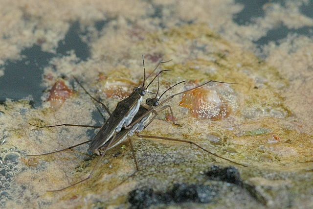 Picture taken in Commanster, Belgian High Ardennes . Species: Gerris lacustris couple